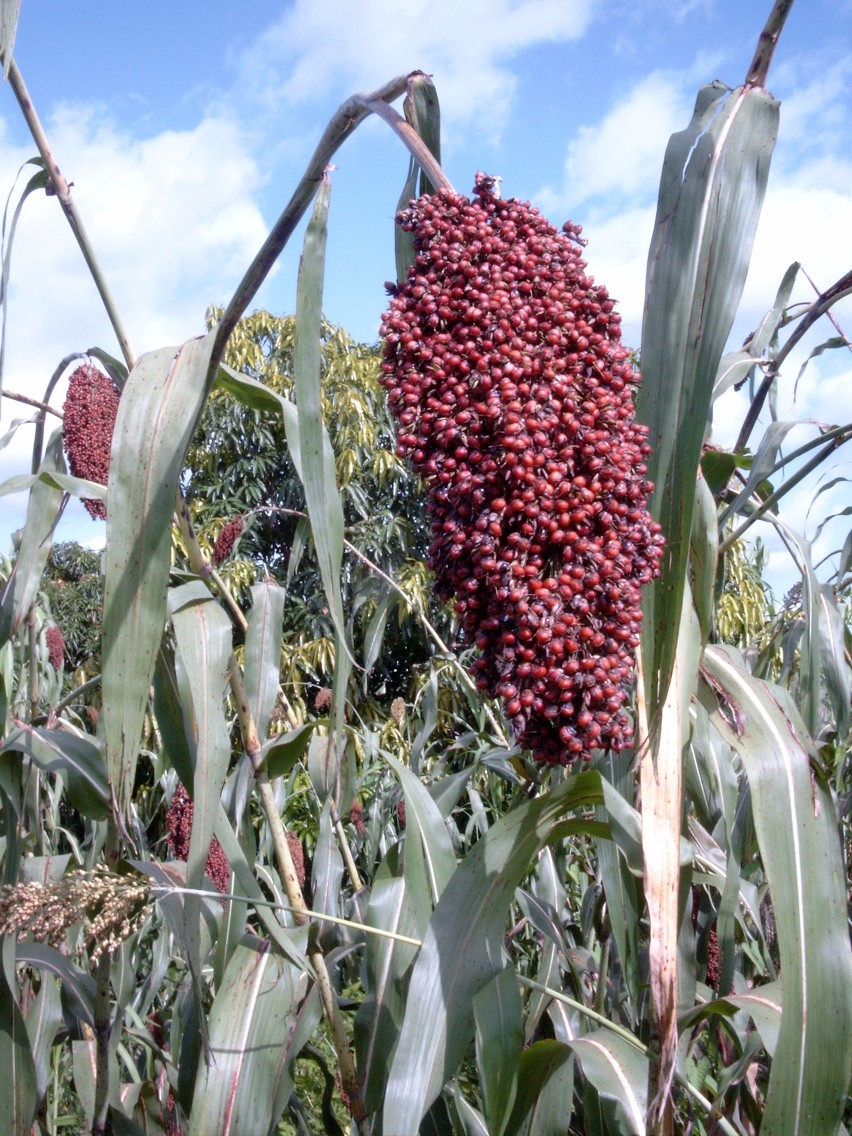 Sorghum (Sorghum bicolor) on a field near Fada N'Gourma, Burkina Faso. Shea tree in the background.